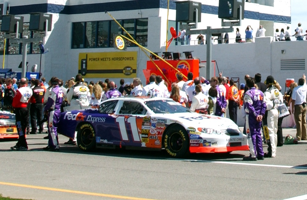 NASCAR drivers Jason Leffler #11 and Bobby Hamilton, Jr. #32 before the start of the 2005 NASCAR NEXTEL Cup race at Las Vegas. Bobby Hamilton, Jr. is the short man at the front of the #32 car.